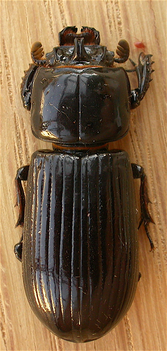 A Aulacocyclos edentulus in Australia.